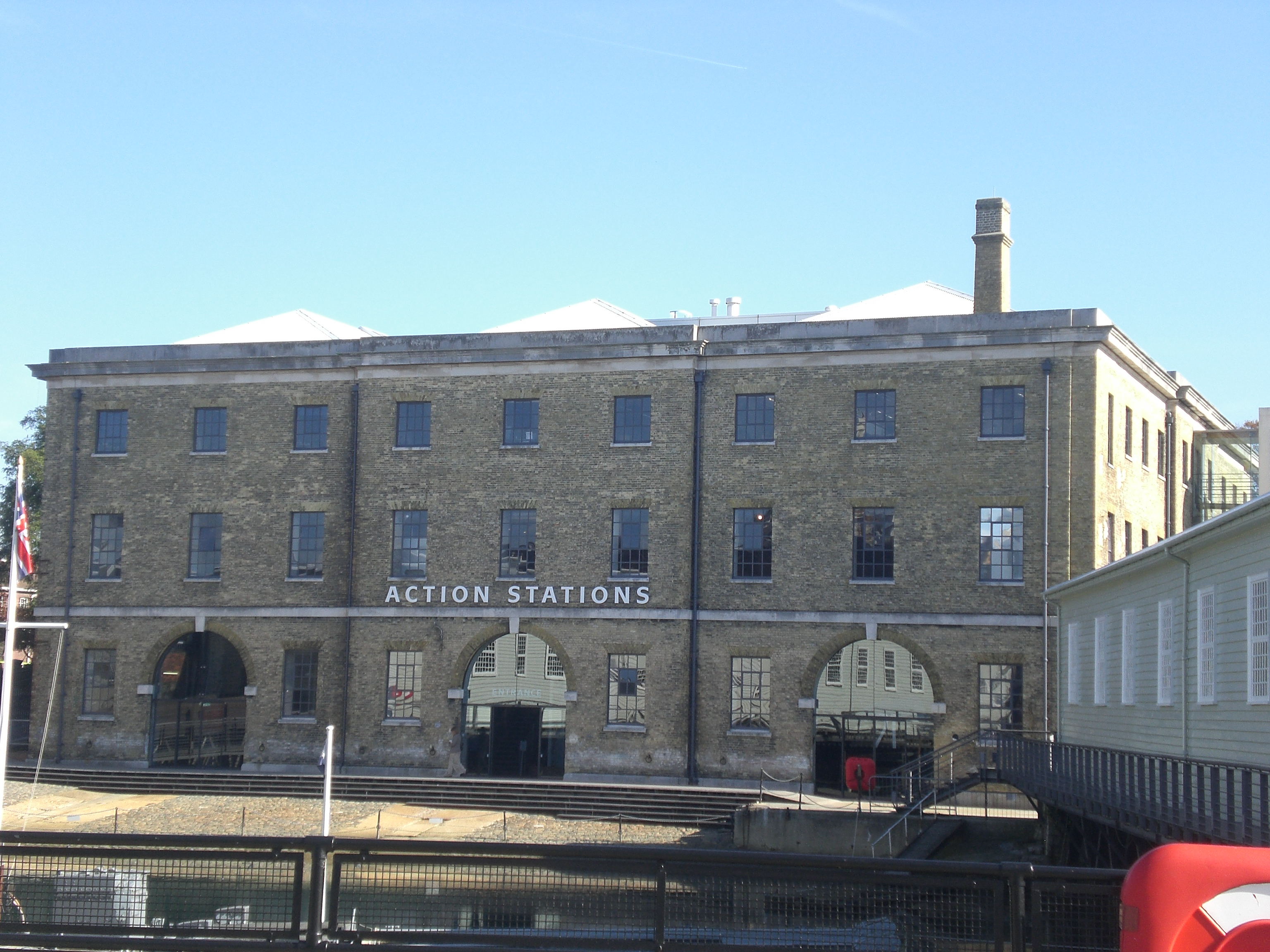 Action Stations, located inside a converted warehouse in Portsmouth Historic Dockyard.